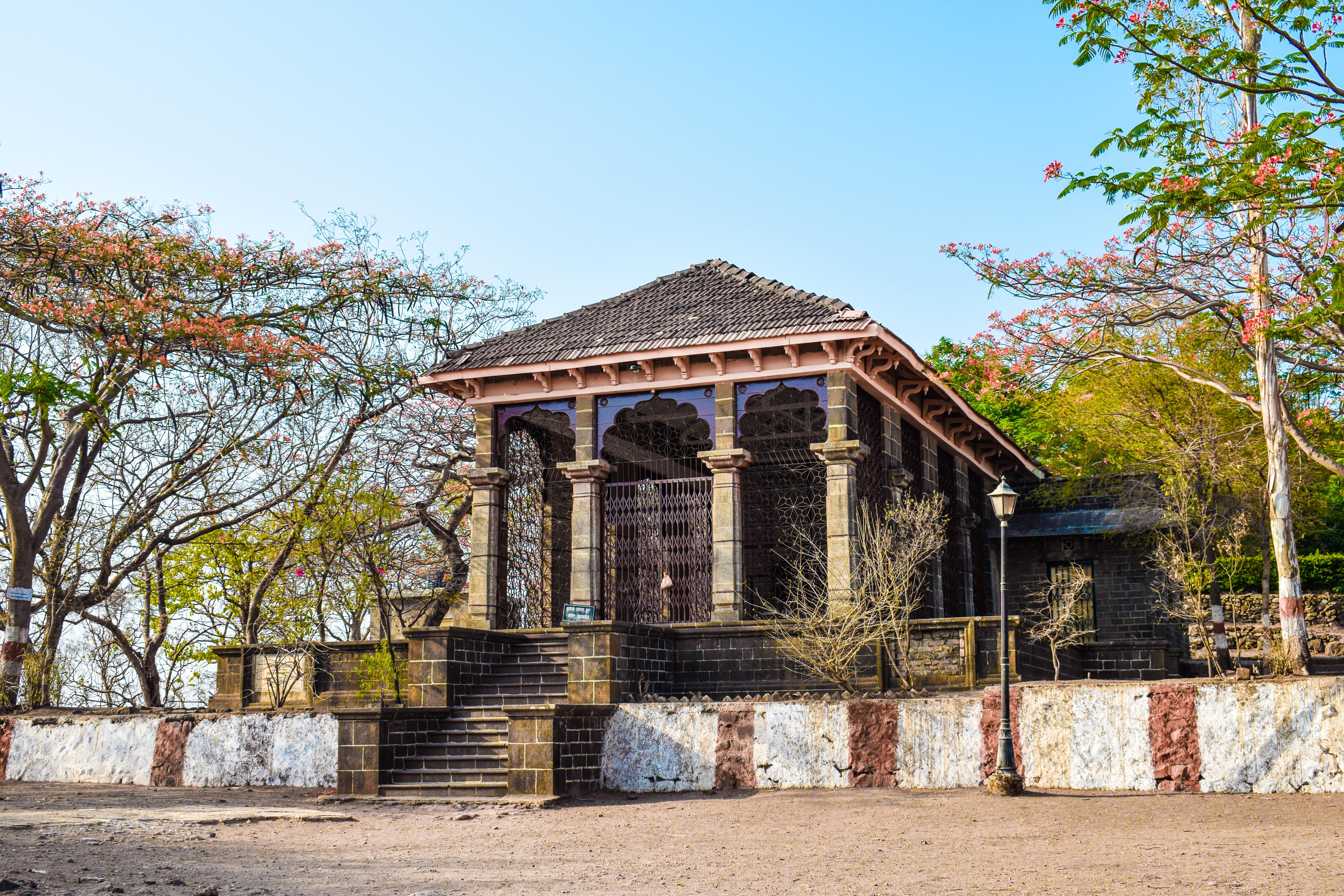 shivneri fort temple where statues of raja shiv chatrapati and his mother jijabai is placed